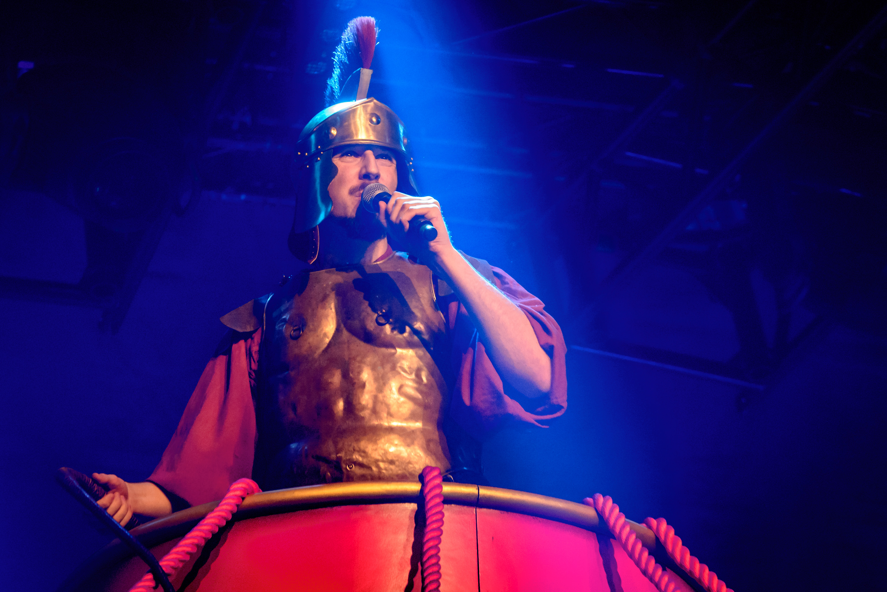 Alligatoah Live @ Munich 2016